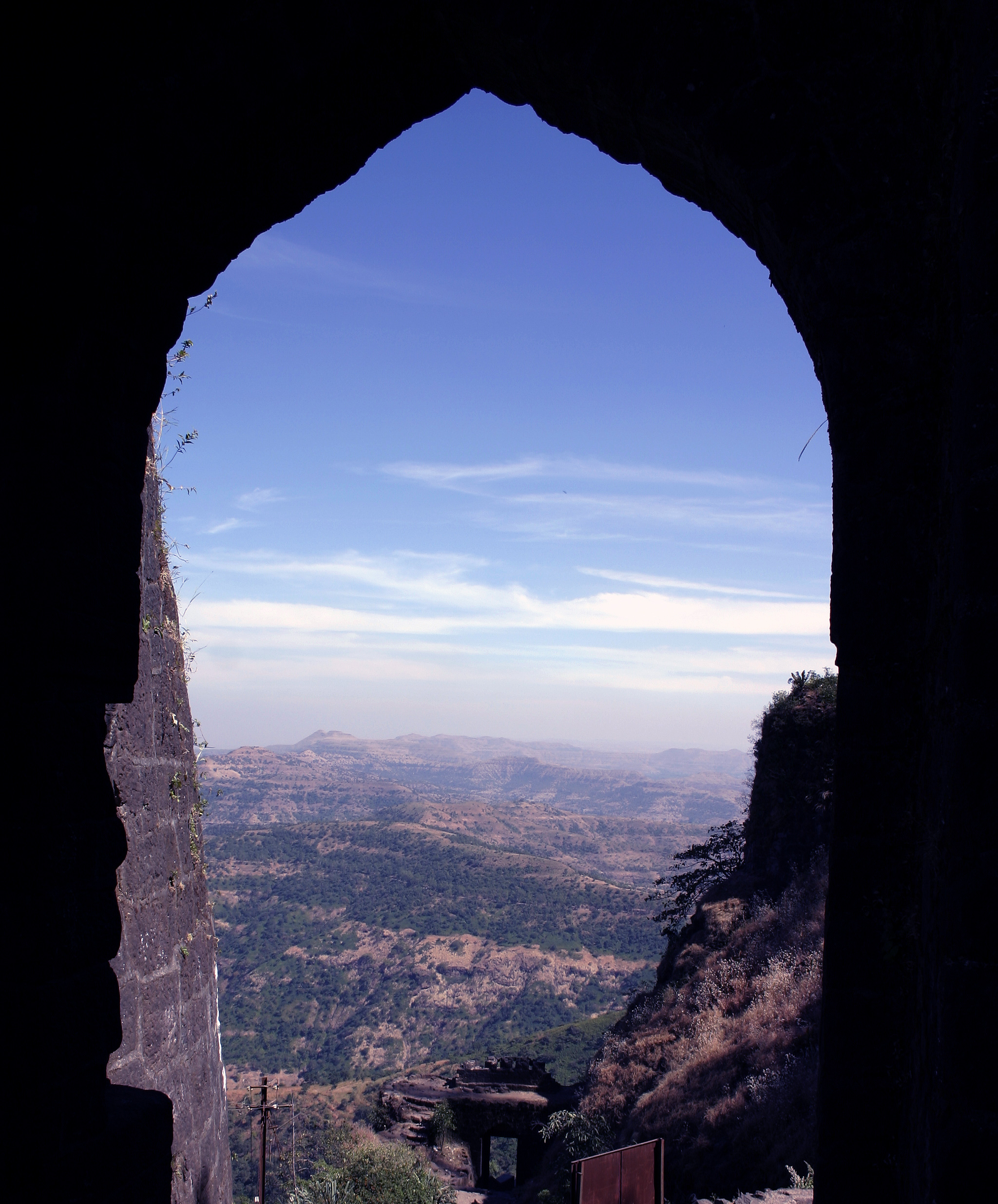 I clicked this photo myself.